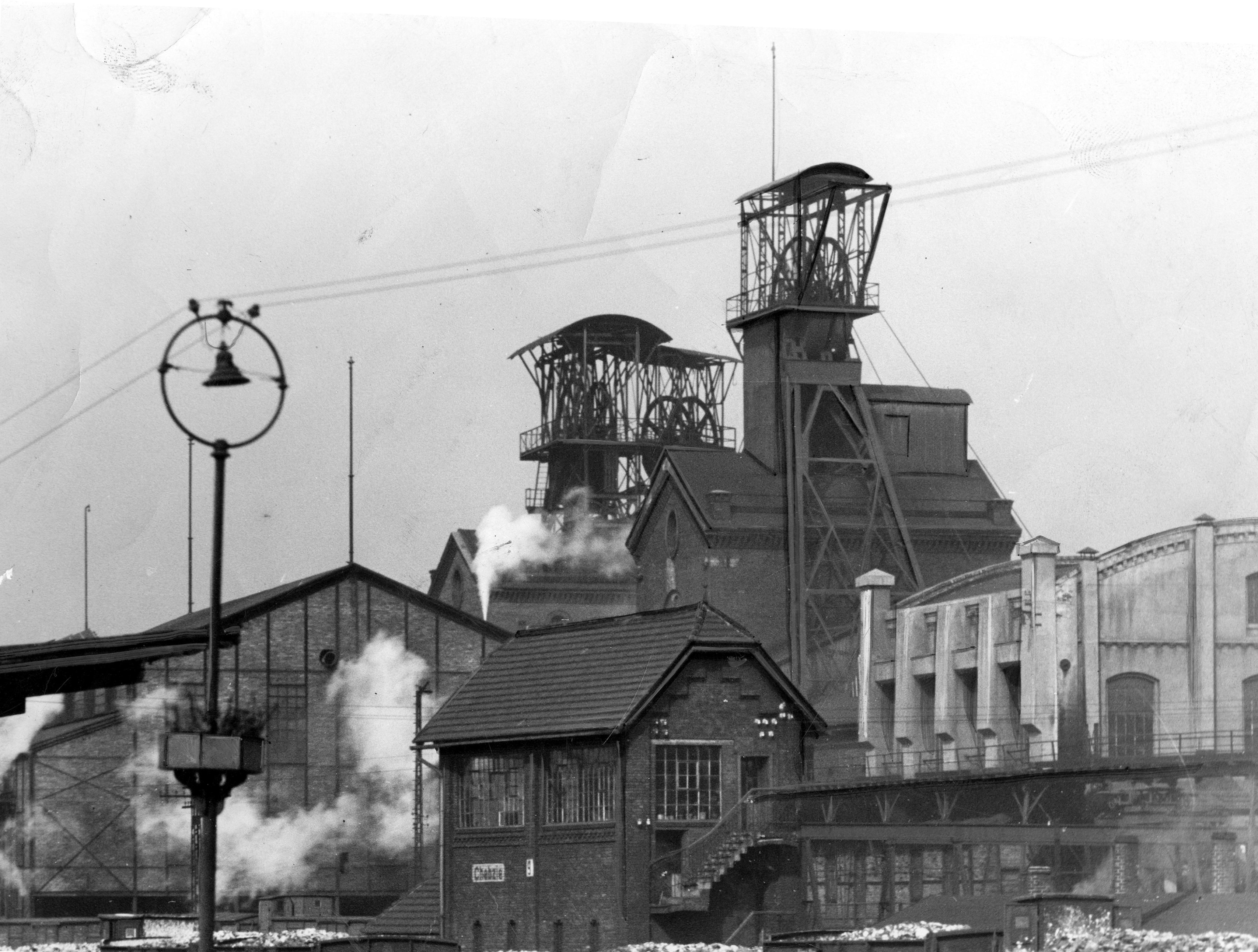 Coal mine Paweł (German Paulus) in Ruda Śląska-Chebzie in Poland.